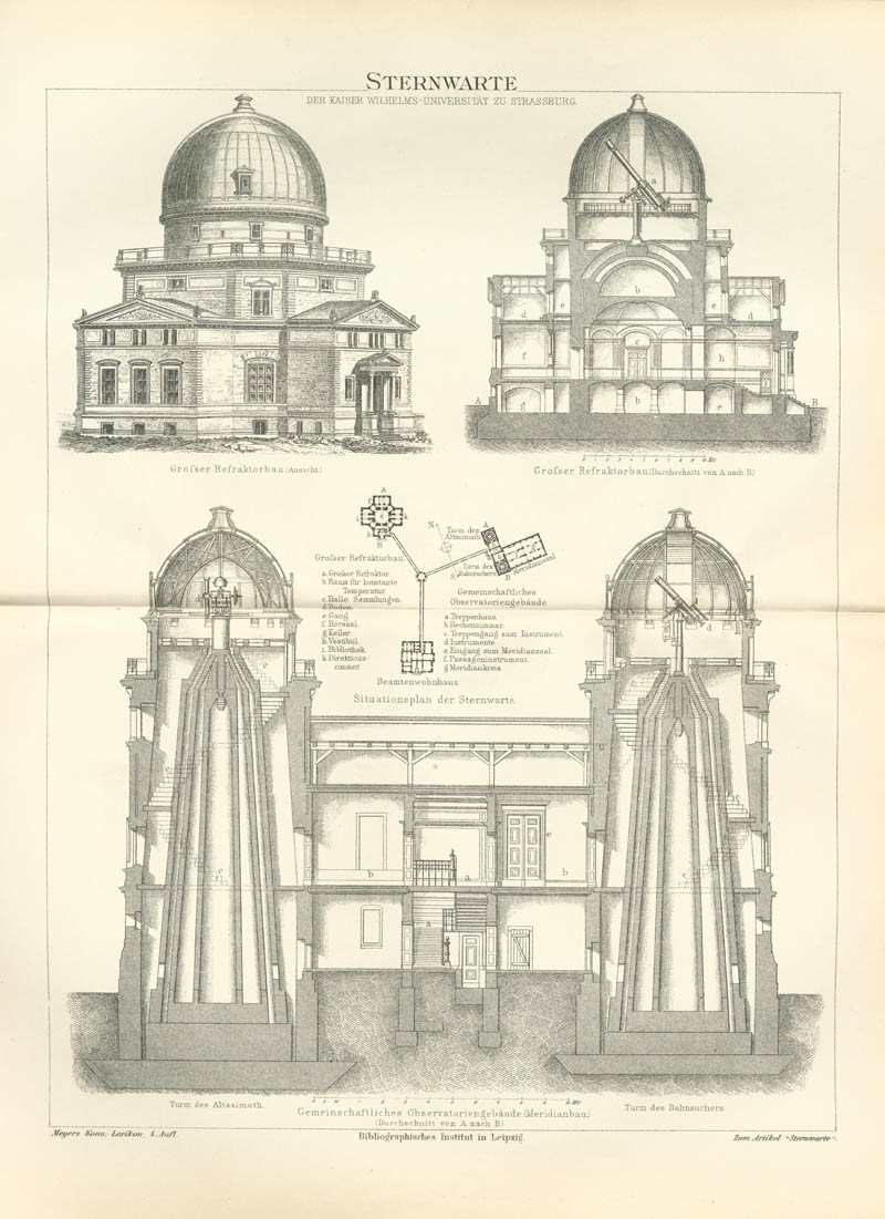 drawings of the Observatory of Kaiser Wilhelms-University of Strasbourg